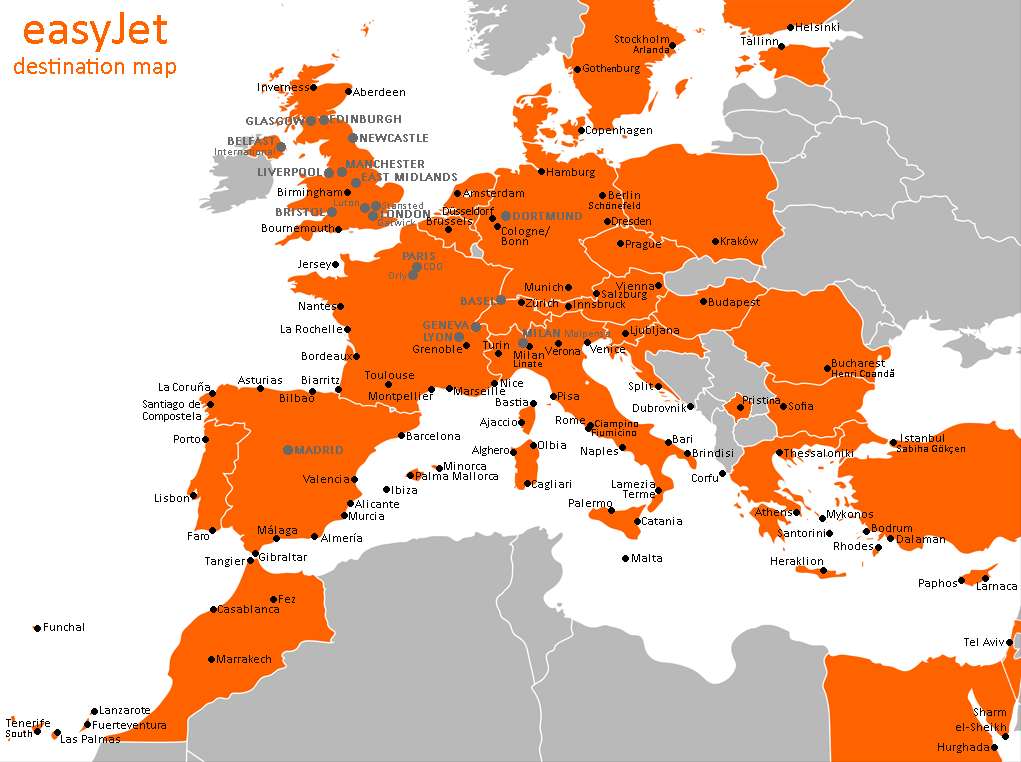 The map is created by me from a Europe political map already on Wikipedia. See the old file's description page at the Commons. El logo no es el original Callumm 12:31, 13 October 2007 (UTC)